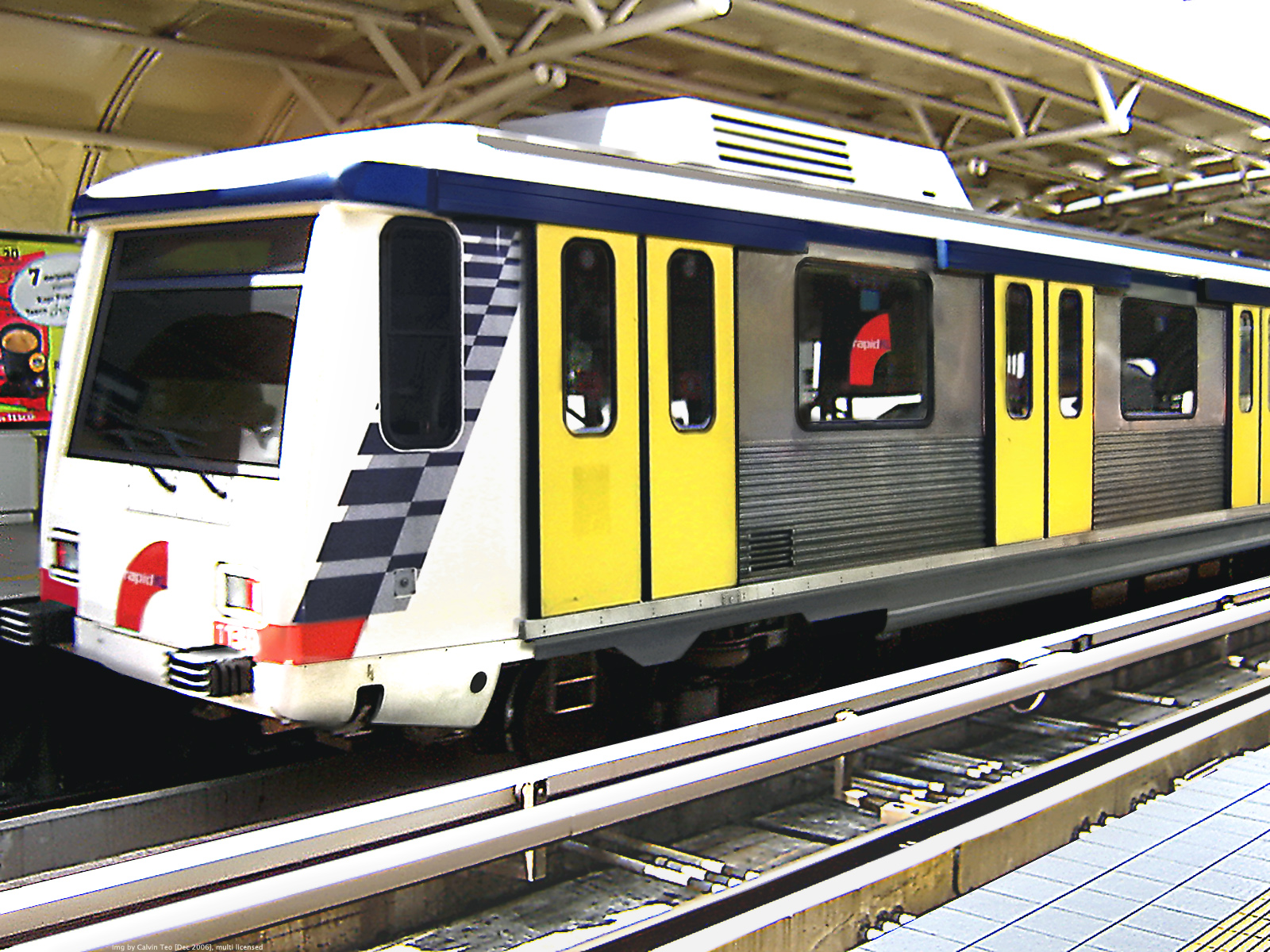 A 6-car General Electric EMU (No. 1138) in the Masjid Jamek LRT Station, on the STAR LRT in Kuala Lumpur.